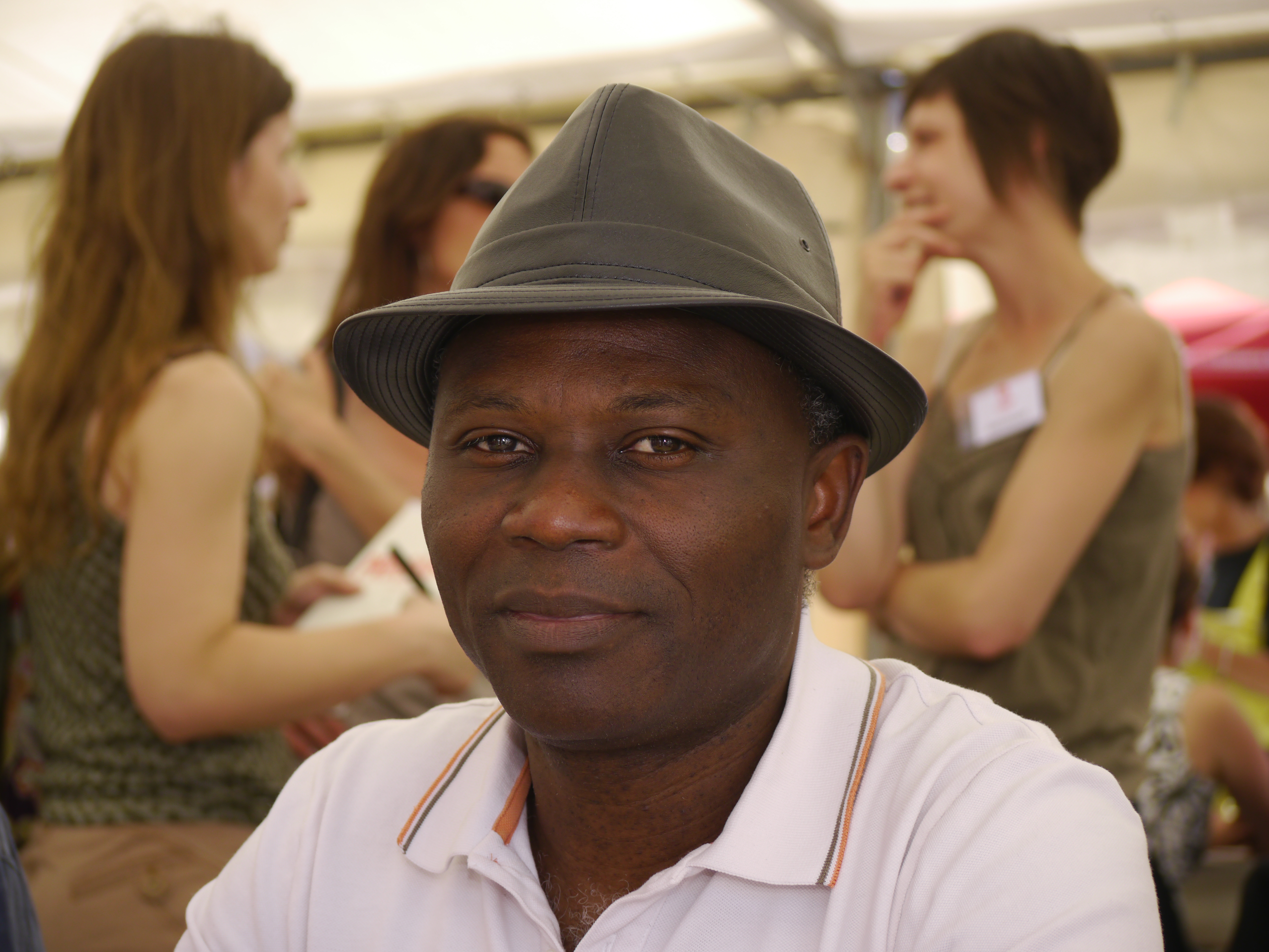 Comédie du Livre 2011 edition of Montpellier